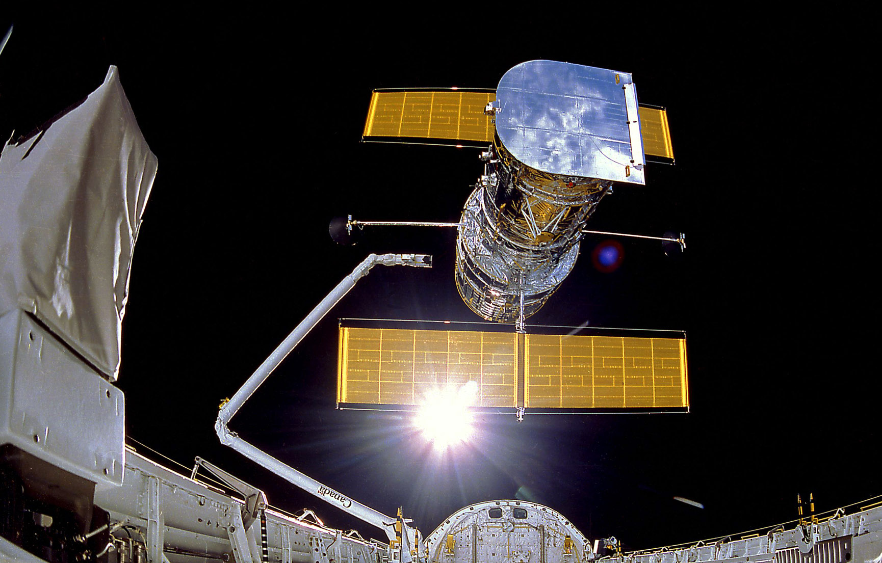 IMAX Cargo Bay Camera view of the Hubble Space Telescope at the moment of release, mission STS-31.